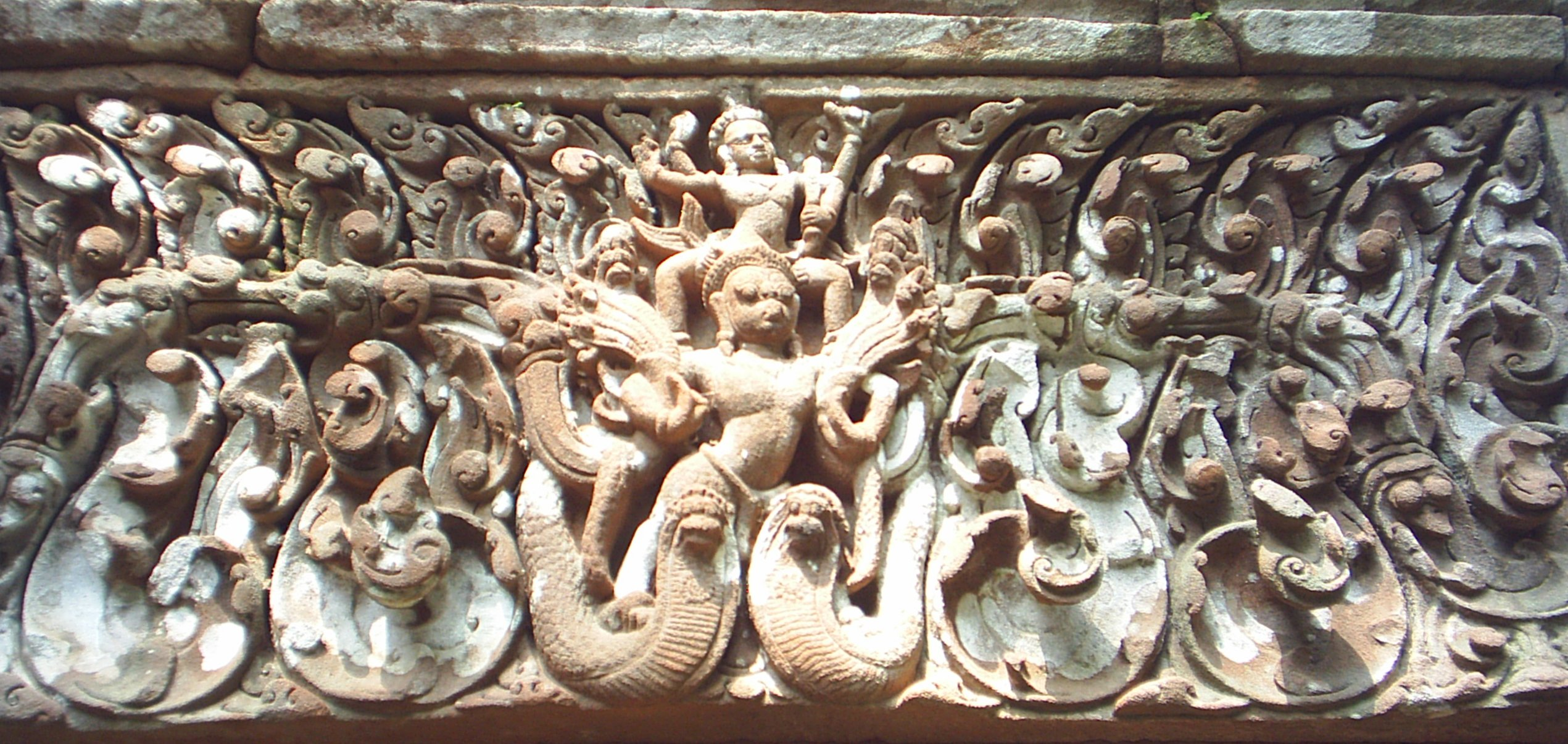 Pediment showing Vishnu riding garuda, east side of sanctuary at Wat Phou, Laos. Autumn 2005.